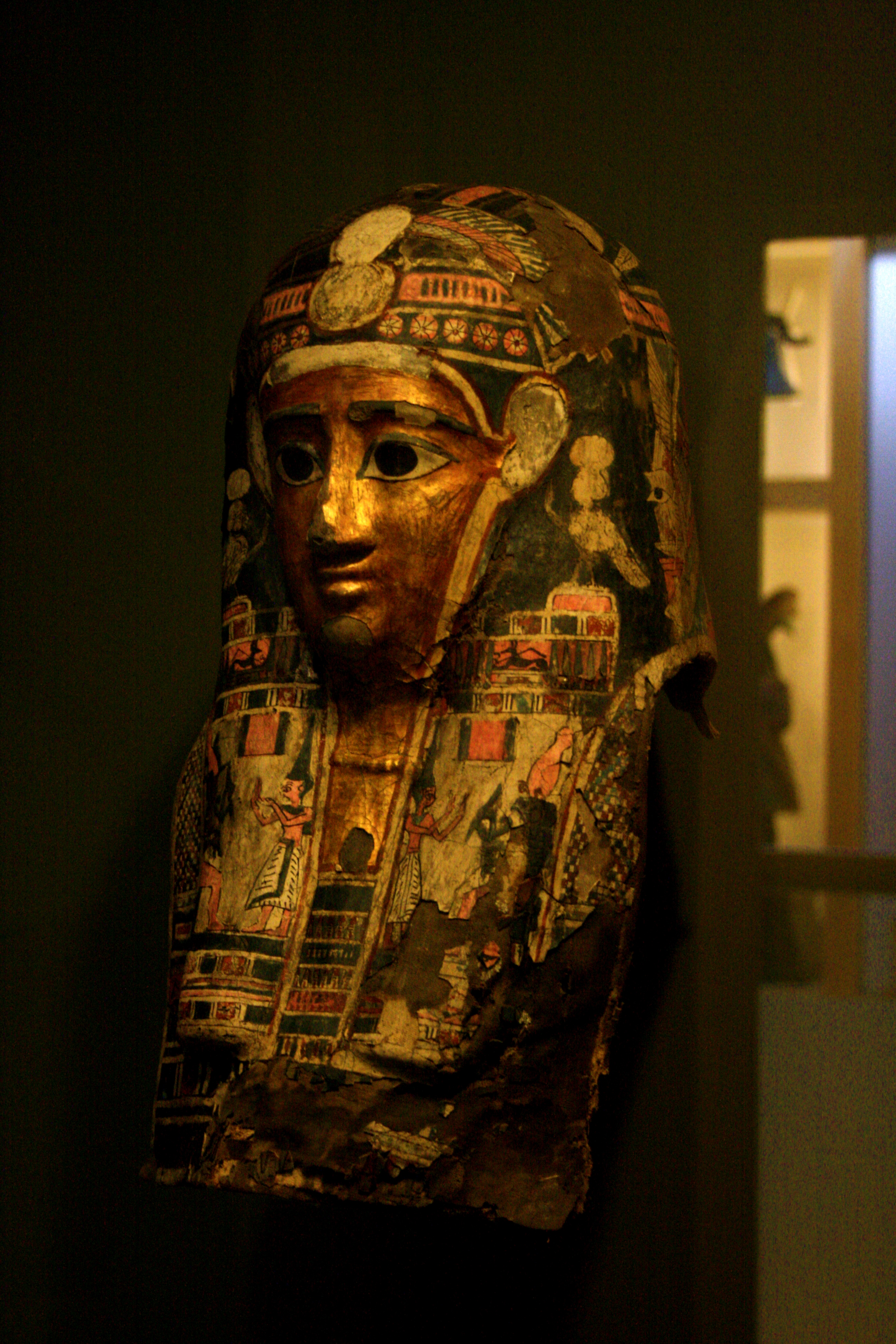 A sarcophagus that is displayed in the Kalamazoo Valley Museum.